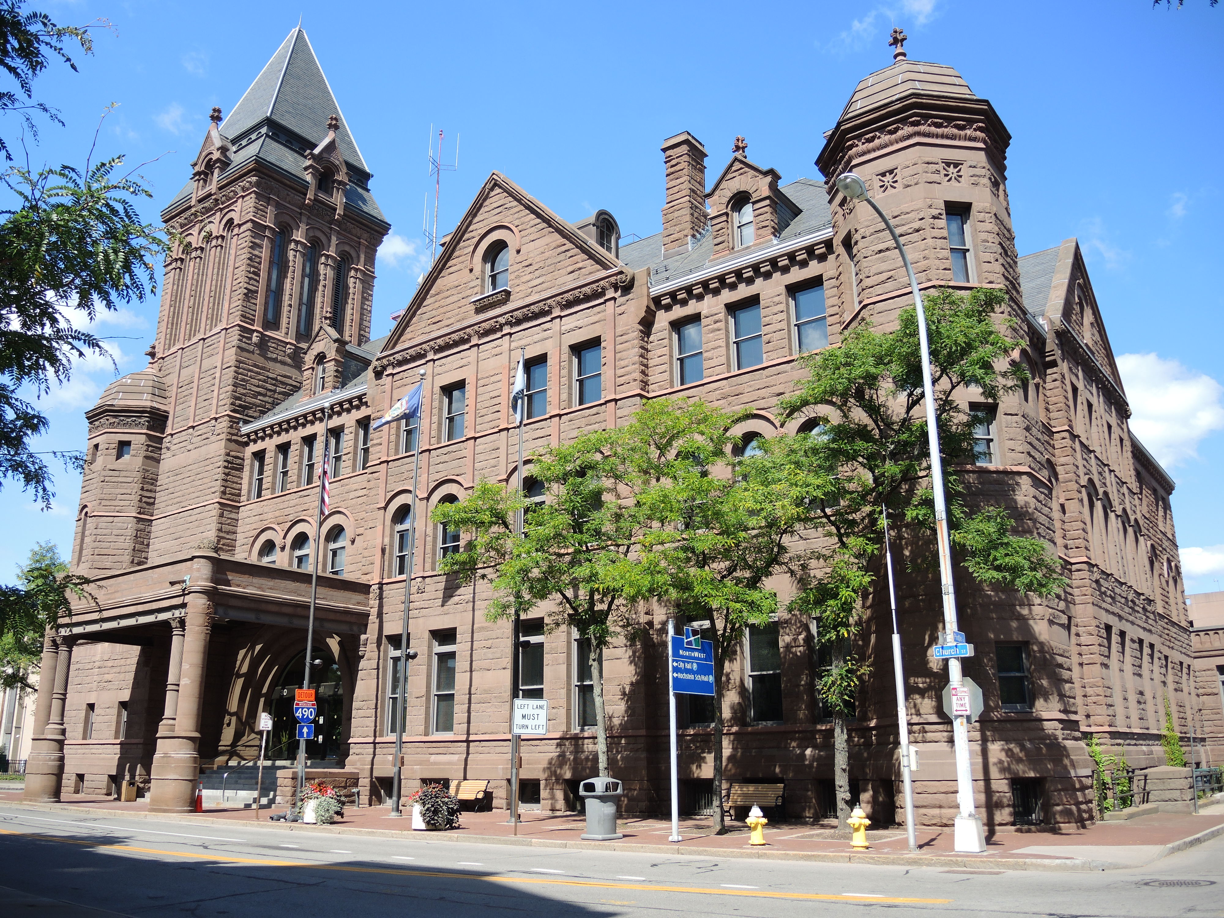 Front view of the former Federal Building (Rochester, New York) that now serves as Rochester, New York's city hall